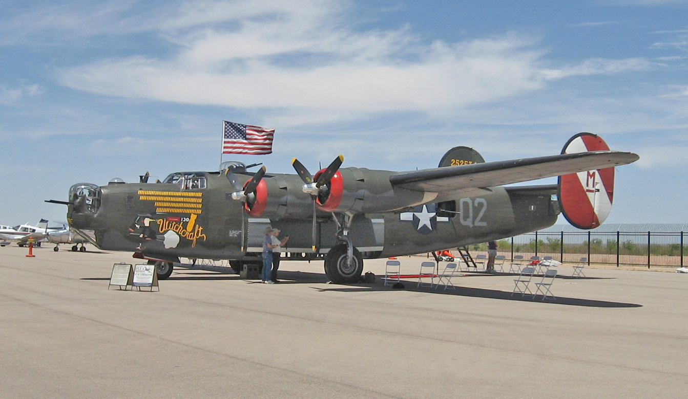 Collings Foundation B-24J at Marana AZ, April 11, 2011